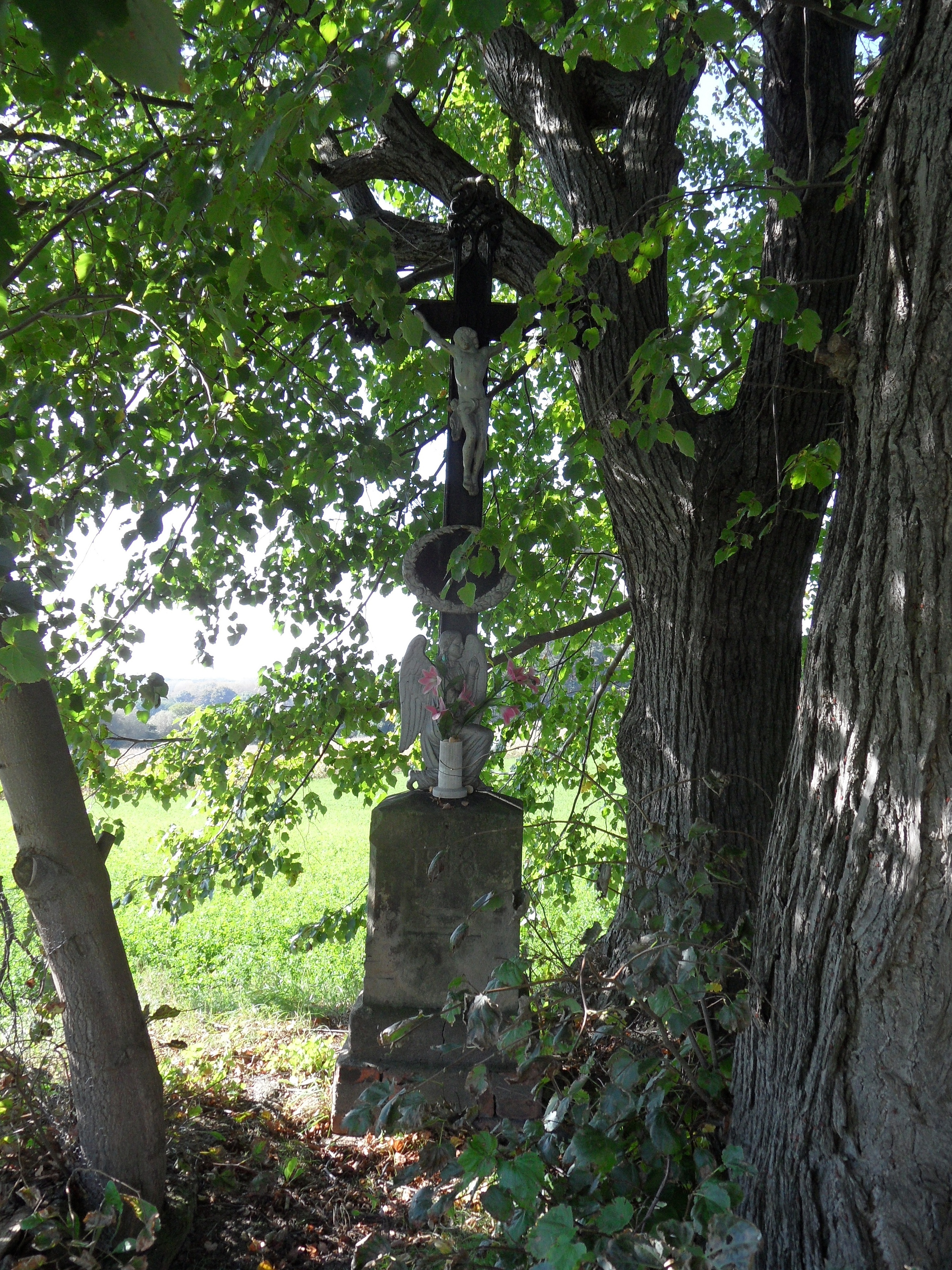 Vinařice (Týnec nad Labem) G. Crucifix, Kutná Hora District, the Czech Republic.